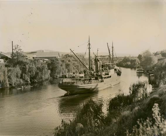 Title: The Wyrallah Richmond River, Lismore (NSW) Dated: No date Digital ID: 12932_a012_a012X2445000010 Rights: We'd love to hear from you if you use our photos/documents. Many other photos in our collection are available to view and browse on our website using Photo Investigator.